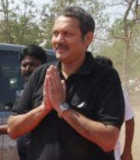 on 21st April At ZP Ground, Satara